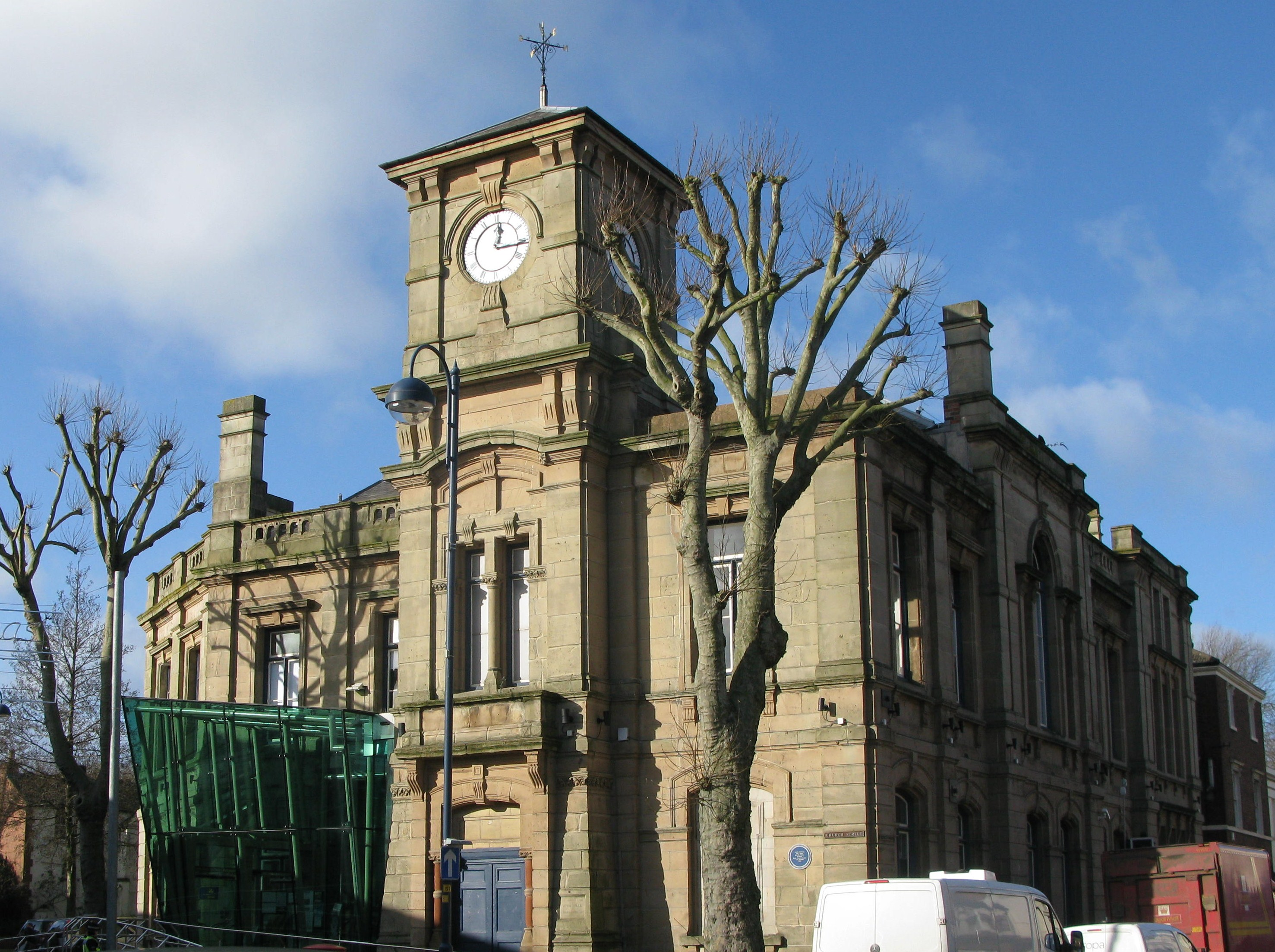 Grade II